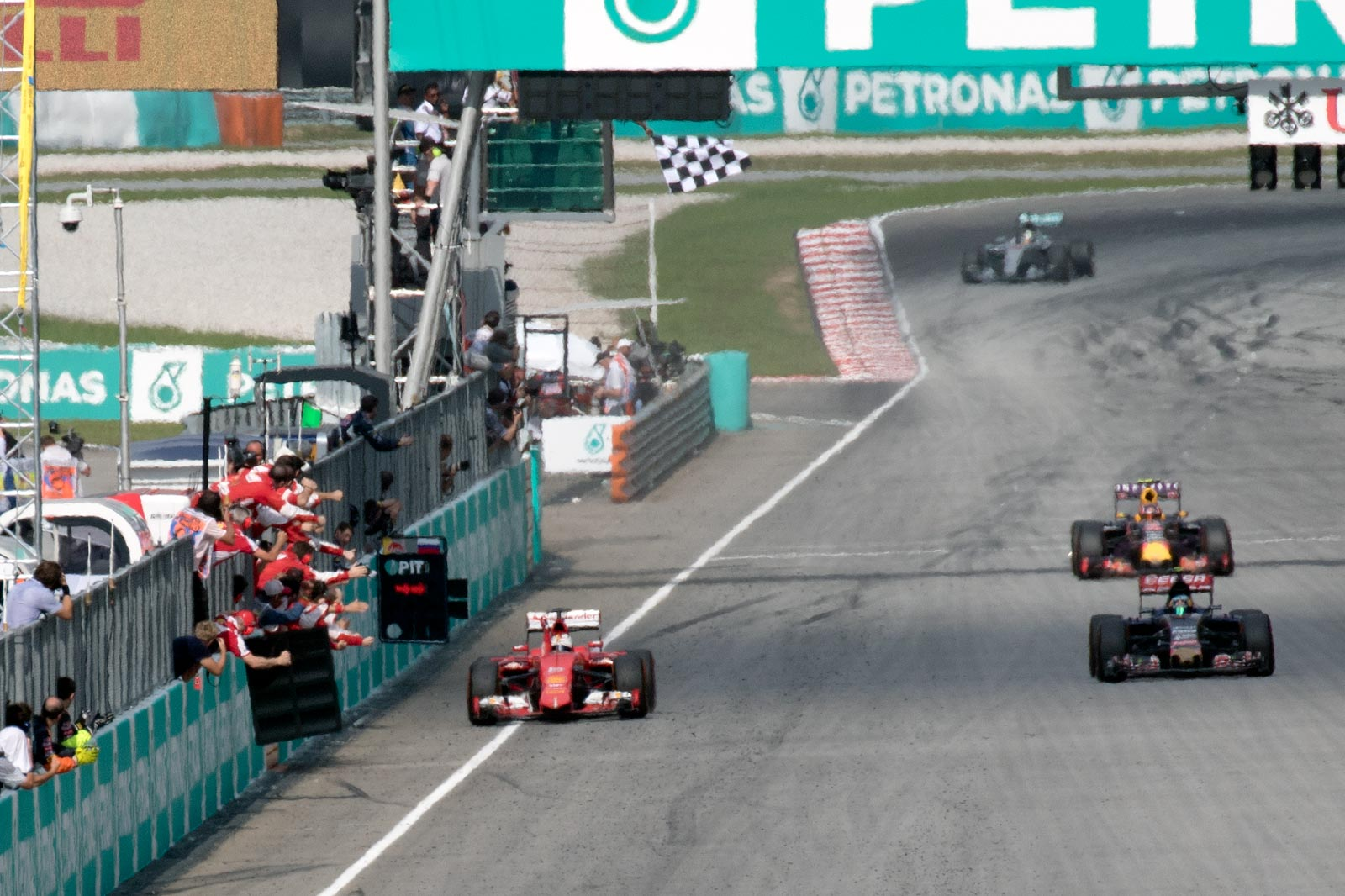 Formula One 2015 Rd.2 Malaysian GP: Sebastian Vettel (Ferrari)